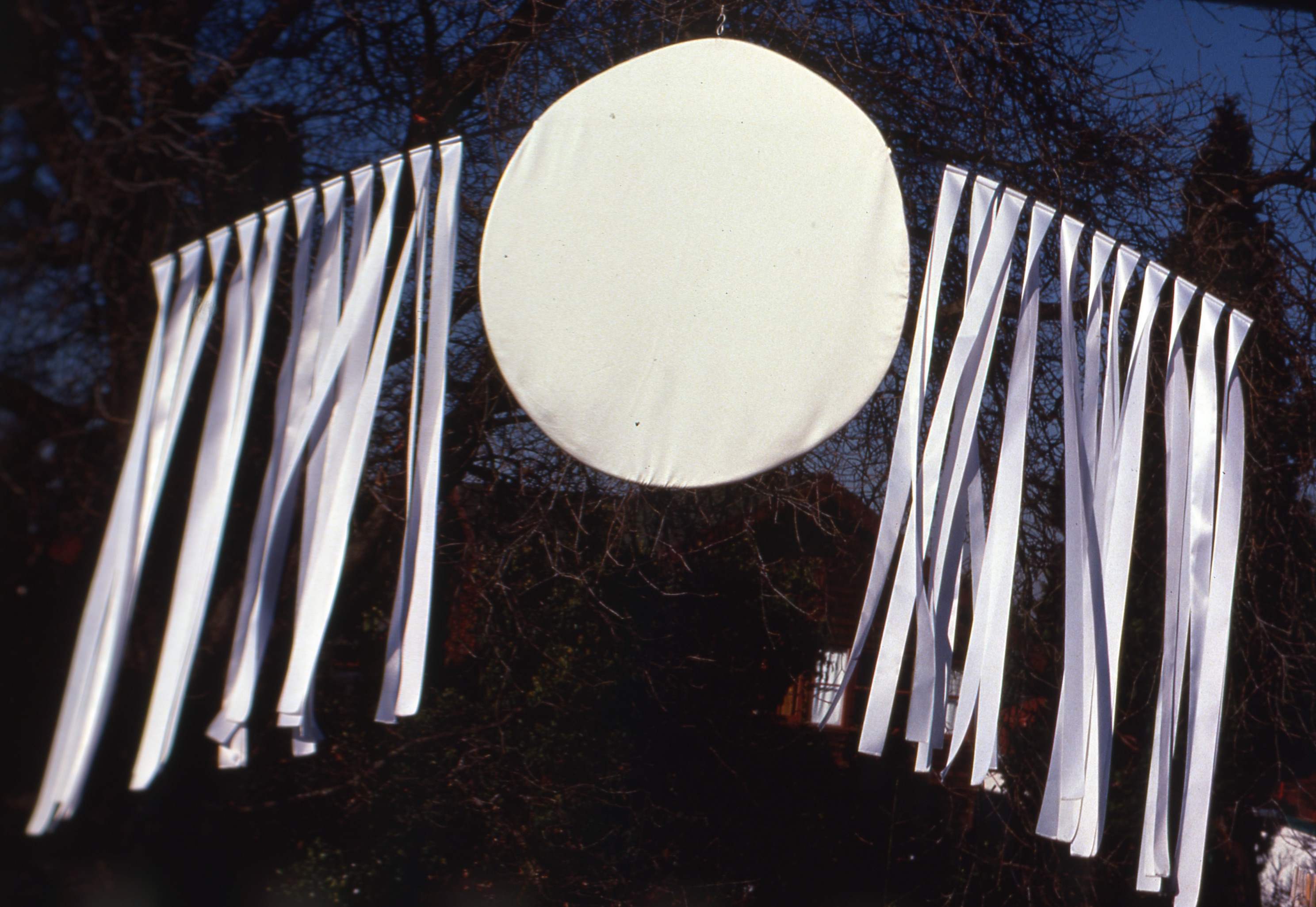 Amelia, 1972. © Mary Curtis Ratcliff. Satin, plexiglass, plastic, wood, and monofilament. 96 x 120 x 2 in.